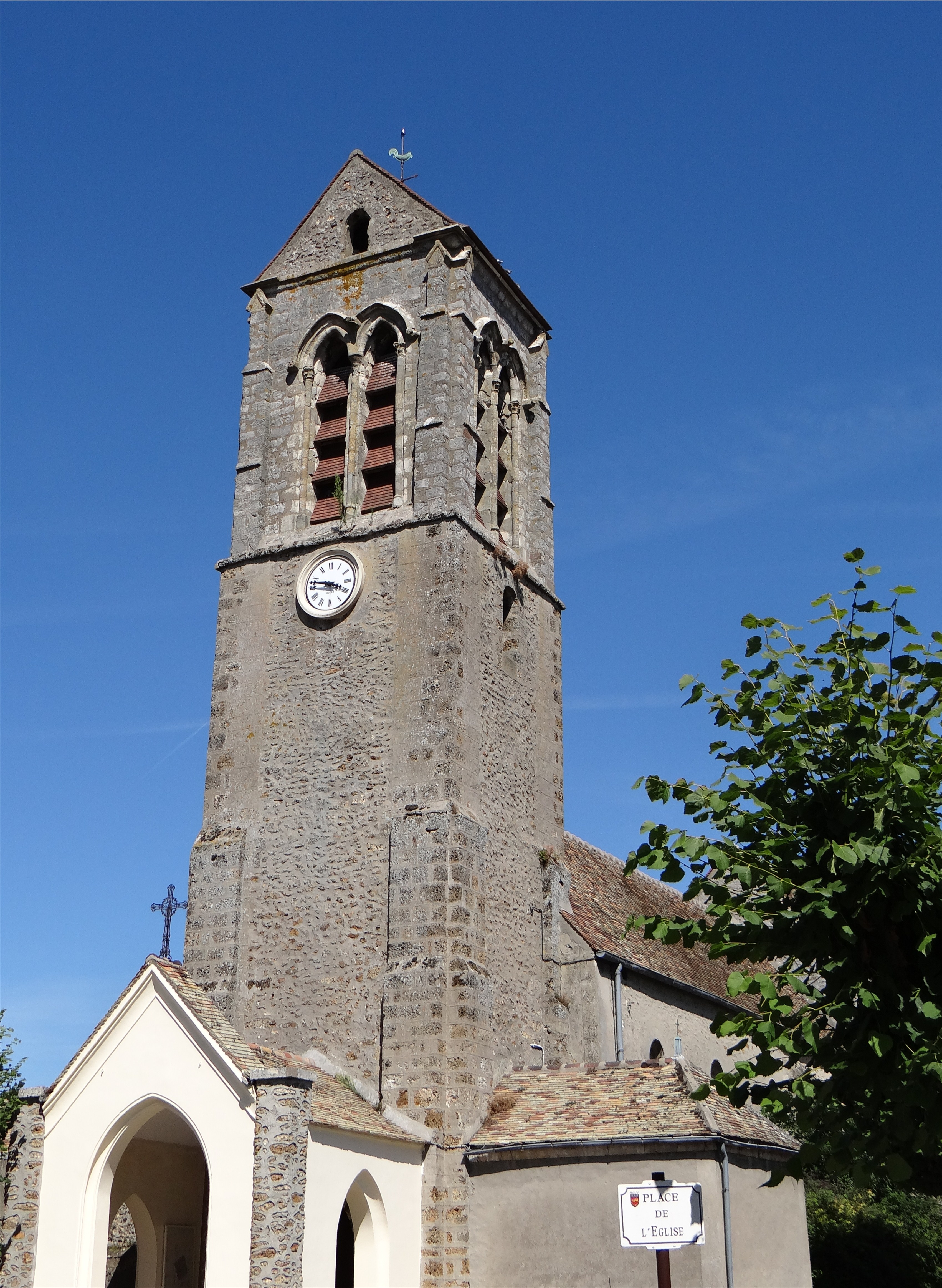 Church of Saint Peter and Saint Paul, Égly, Essonne, France